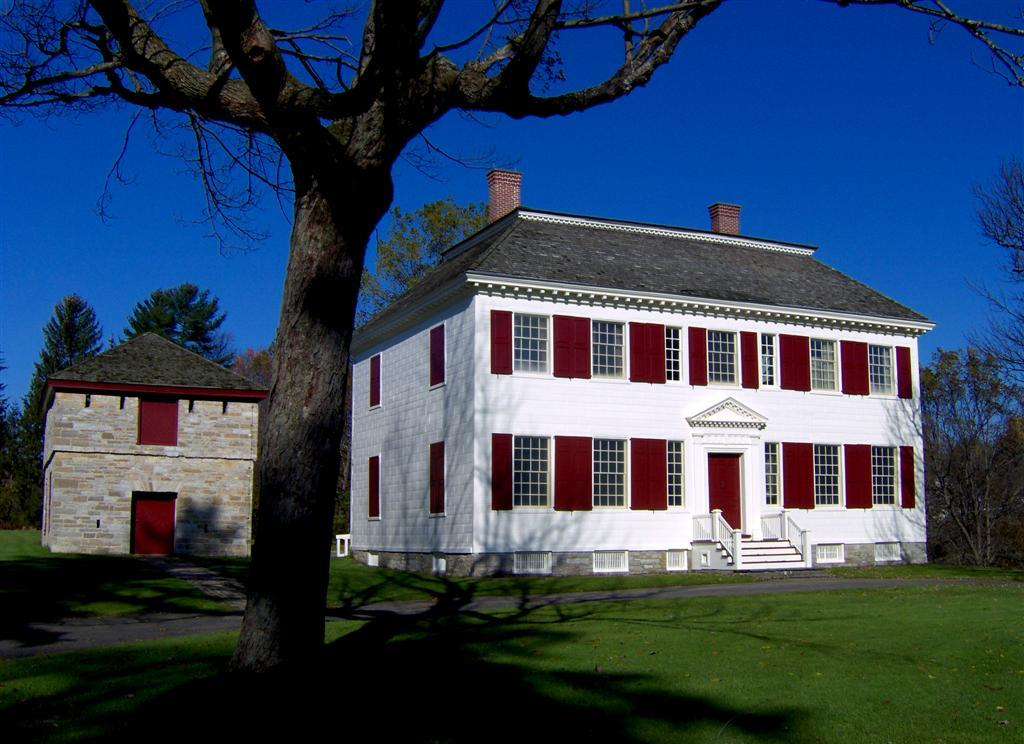 (COPYRIGHT 2006, ZELPHICS [JOHNSON HALL] YOU MAY COPY/EDIT/REPRODUCE THIS IMAGE.) Johnson Hall, Johnstown, NY. Taken by User:Zelphics